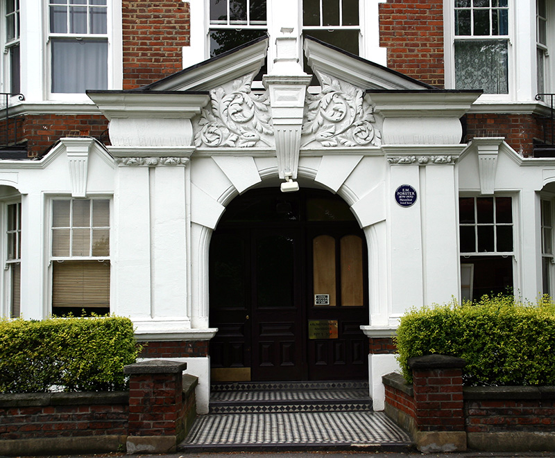 Entrance to Flats 1-10 of Arlington Park Mansions, Chiswick, London. Flat number 9 was the London home of E. M. Forster from 1939 to at least 1961.